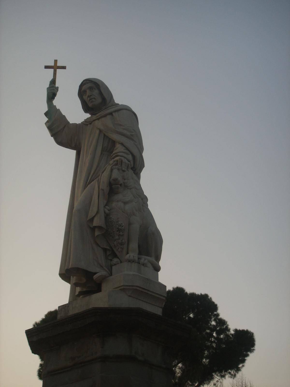 Monument to Girolamo Savonarola in Piazza Savonarola, Florence, Italy.